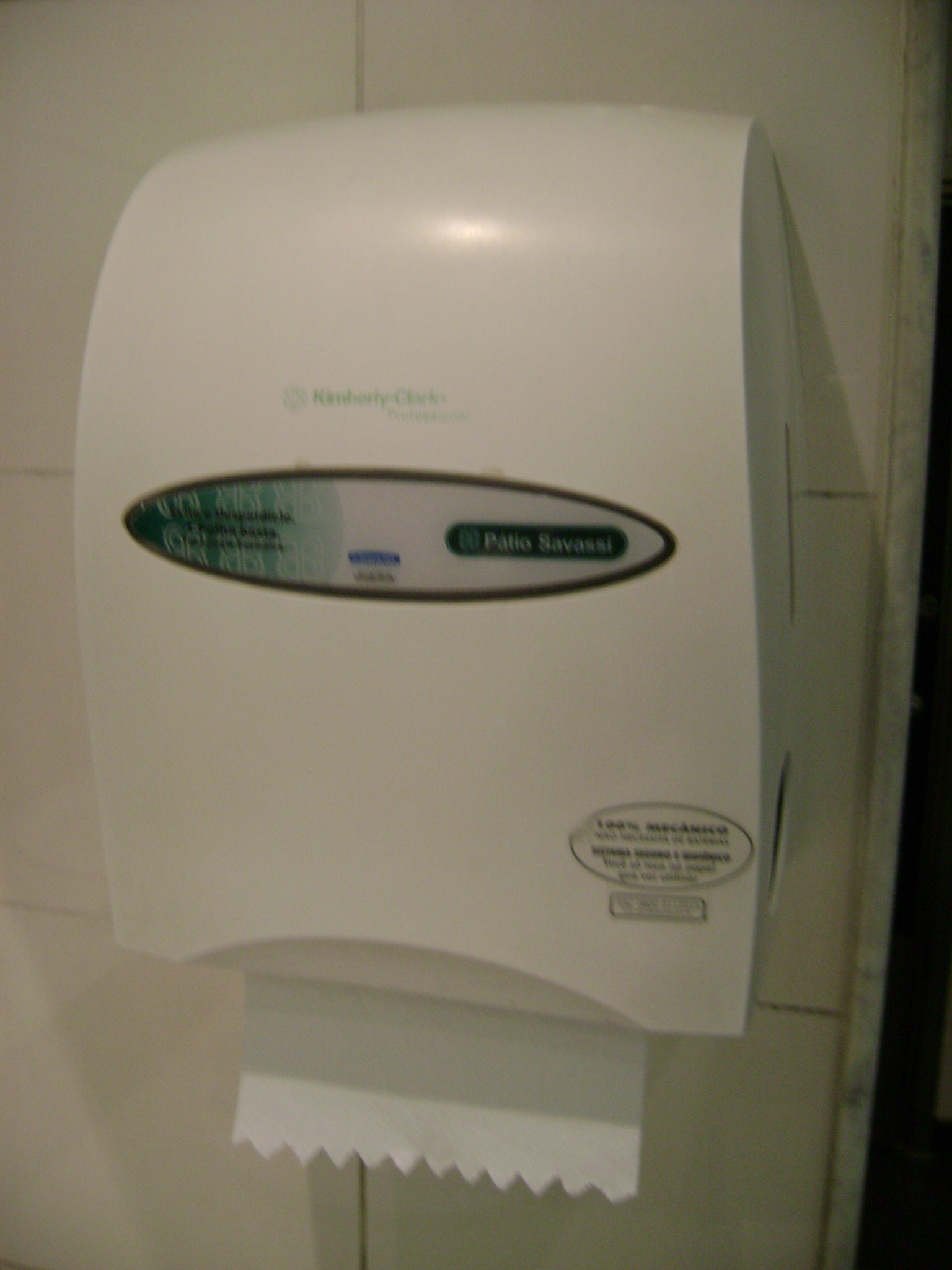 Porta-papel em banheiro de Belo Horizonte.